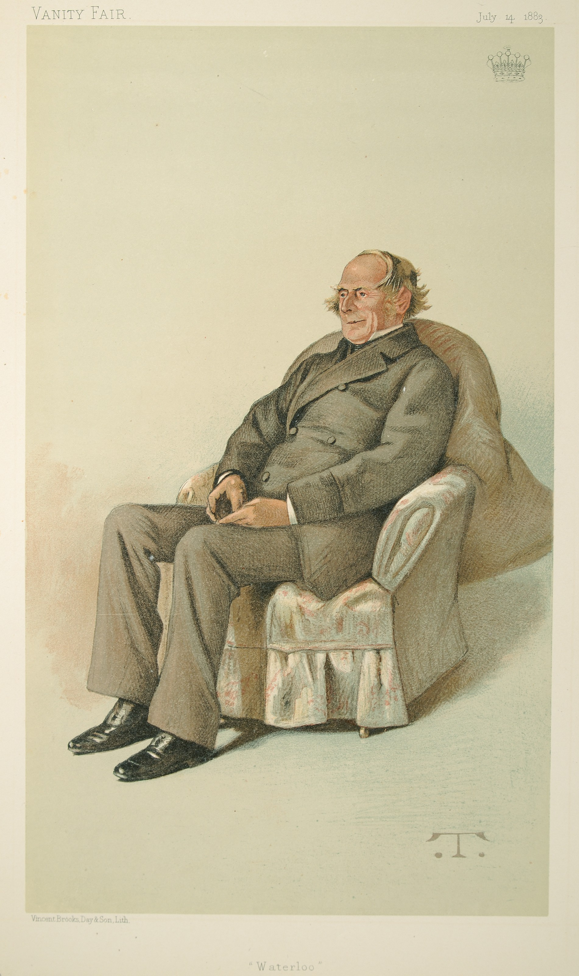 Statesmen No.426. Caricature of Earl of Albemarle. Caption reads "Temple Reader".